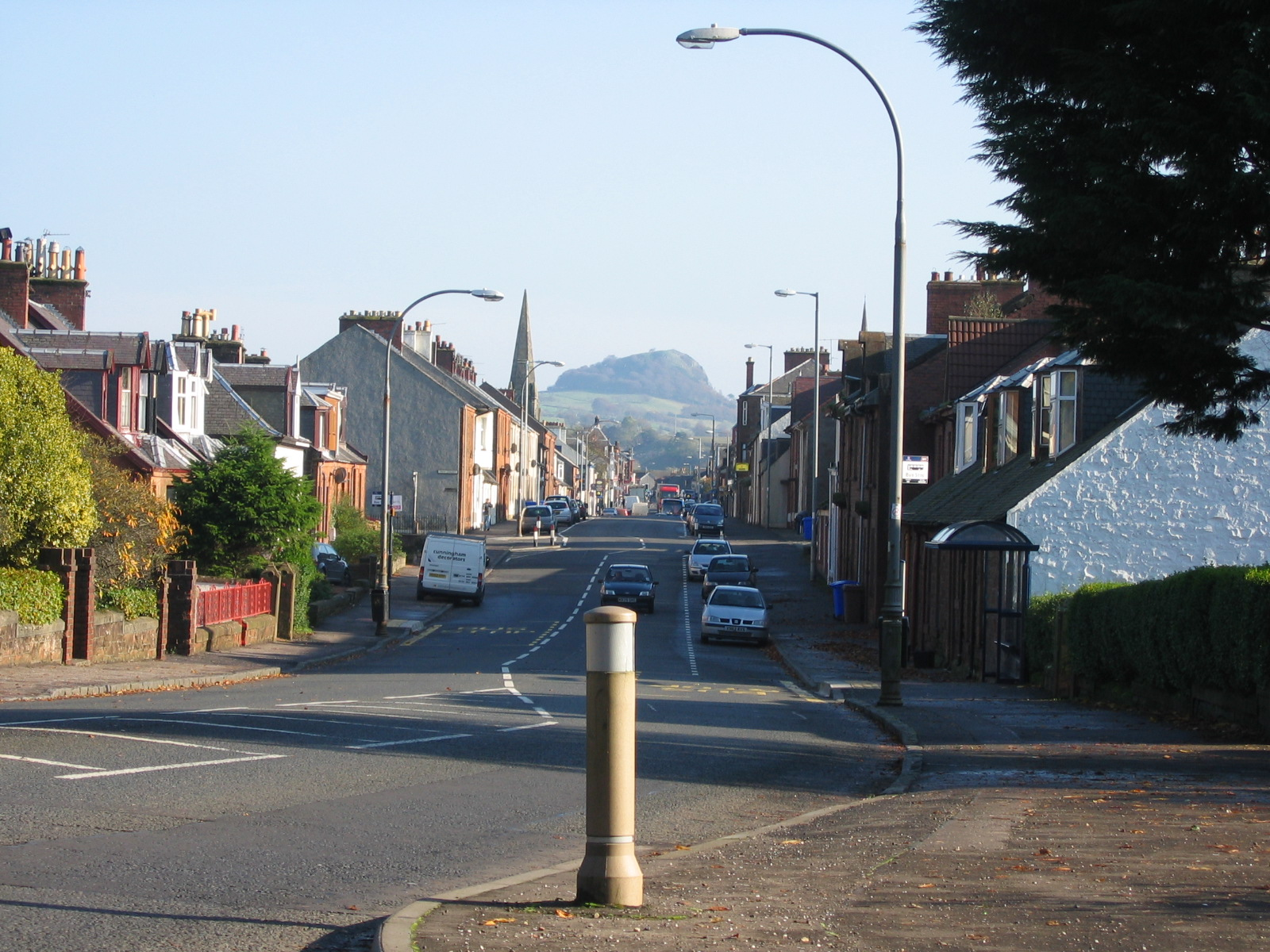 The village of Darvel, Ayrshire, Scotland. Loudoun Hill in the Background. Taken by me.